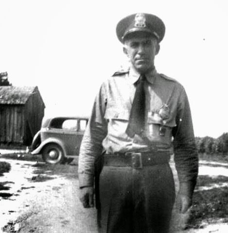 PVT Edward Dennis Merson, PGPD